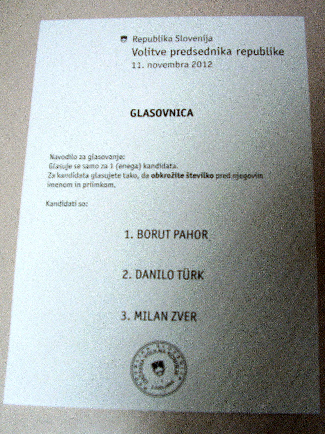 Slovenian presidential election ballot 11. 12. 2012